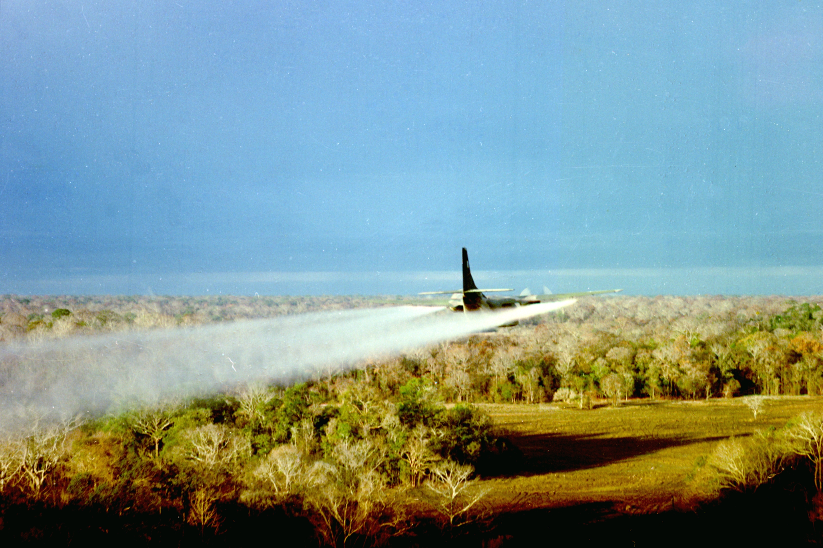 A U.S. Air Force Fairchild UC-123B Provider C-123 Ranch Hand aircraft sprays defoliant over the target area of "Operation Pink Rose" in January 1967. During the Pink Rose test program target areas near Tay Ninh and An Loc, South Vietnam were sprayed with defoliation agents twice and with a drying agent once. Ten flights of three Boeing B-52 Stratofortresses each dropped 42 M-35 incendiary incendiary cluster bombs (per aircraft) into the target area setting fires that should burn the heavy growth as well as enemy fortifications hidden there.